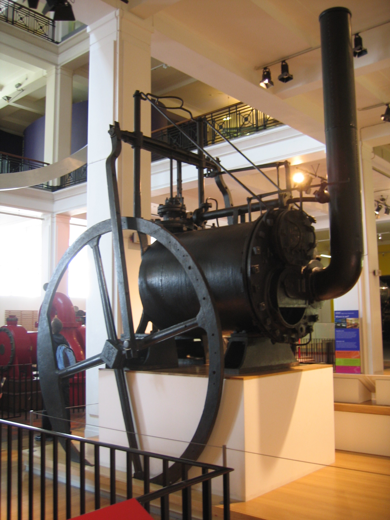 Richard Trevithick's 1806 high pressure steam engine This engine was rescued from a scrapheap in 1882. It's likely that this is the same engine described at W:Image:Trevithick High Pressure Steam Engine - Project Gutenberg eText 14041.png Science Museum website